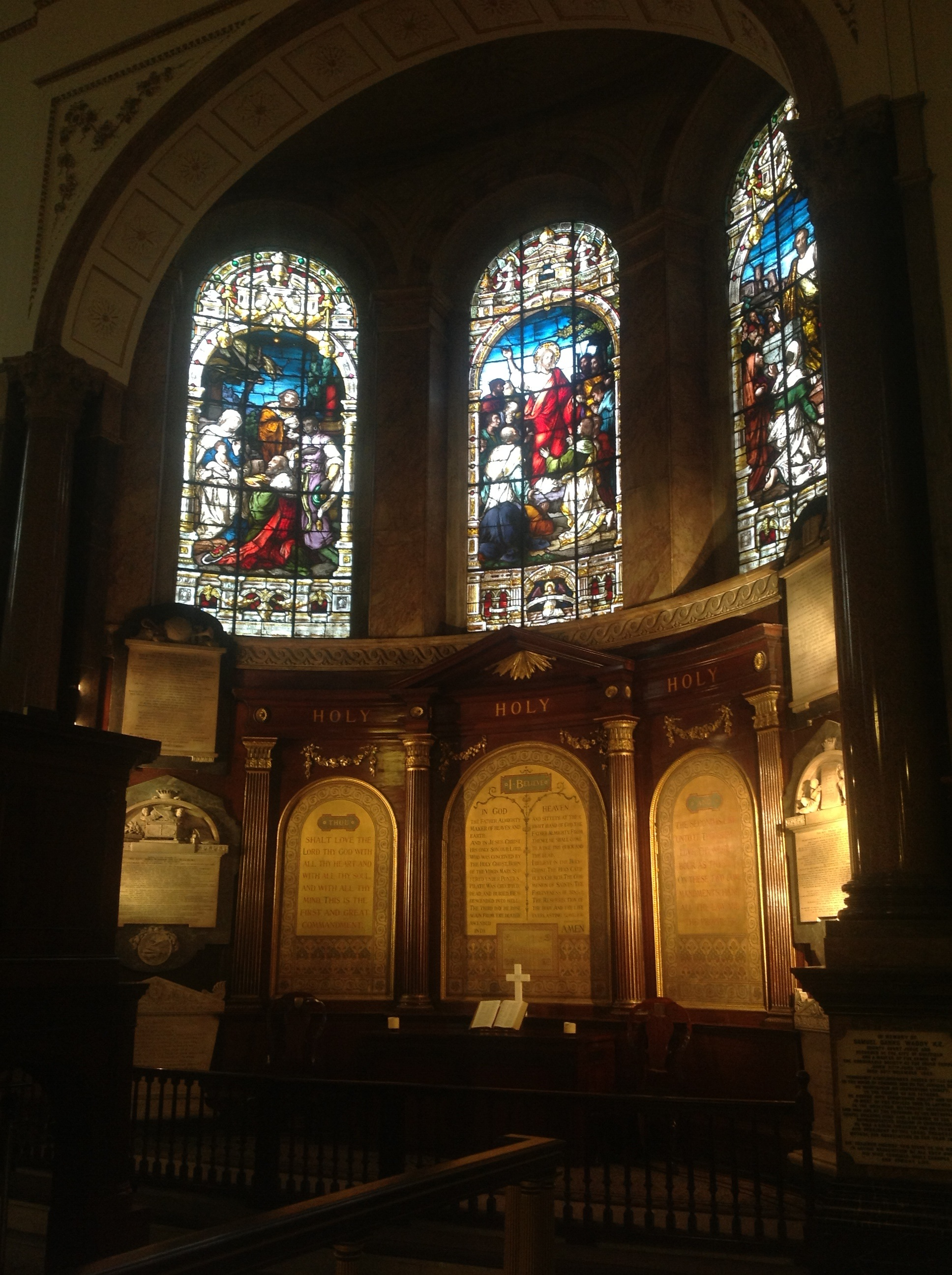 A view of the altar inside Wesley's Chapel, London